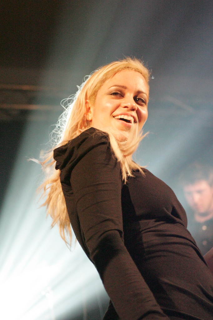 Tahita Bulmer performing with NYPC at Alice Temperley's Alice In Wonderland party at Selfridges during London Fashion Week.